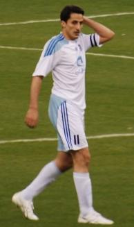 Nawaf Al-Temyat (Arabic: نواف التمياط), born June 28, 1976, is a retired Saudi Arabian football (soccer) player. As a midfielder for Al-Hilal, in 2000 he was Asian Player of the Year, Arab Player of the Year and Saudi Player of the Year. He suffered from a series of injuries that prevented him from playing between 2001 and 2004. His last game with Al-Hilal was in 2008.